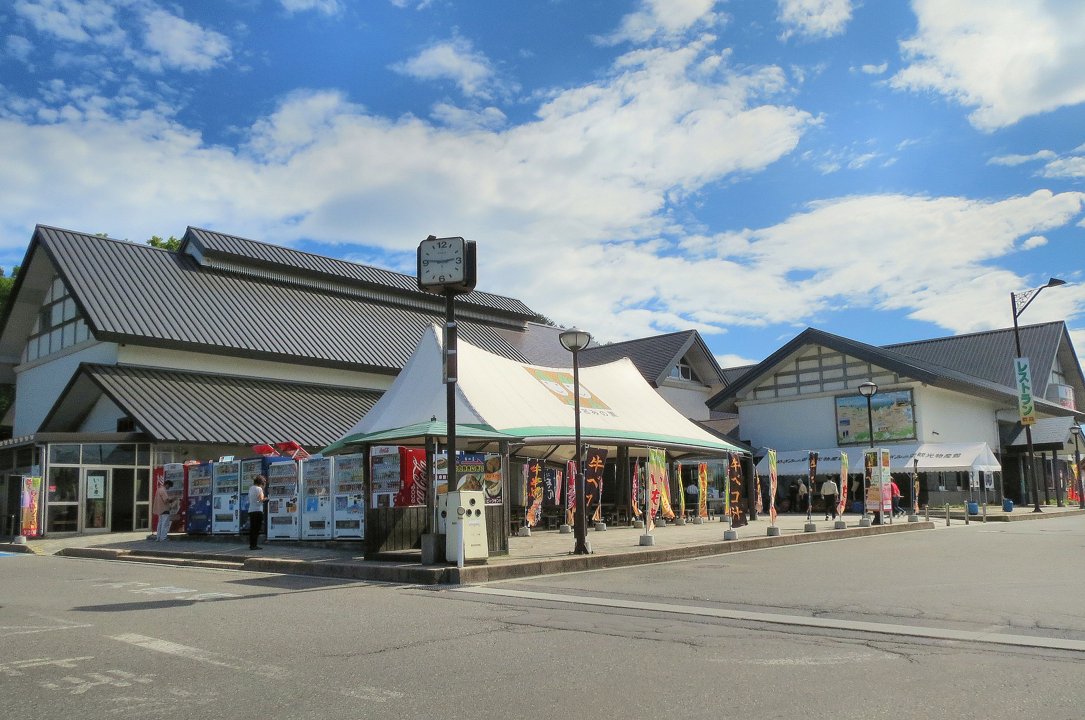 Michinoeki Iide in Iide Town, Yamagata Prefecture, Japan